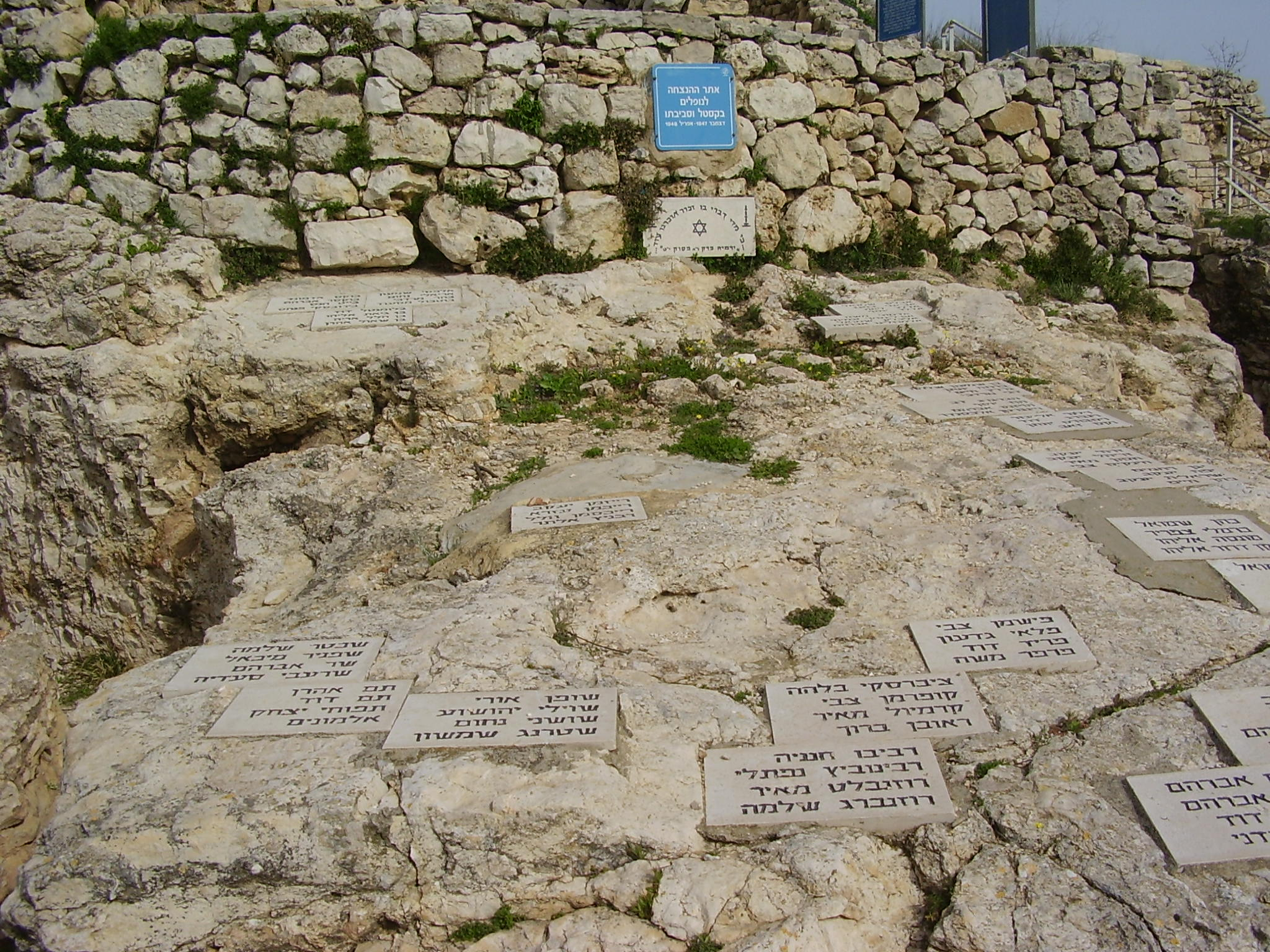 kastel national memorial site